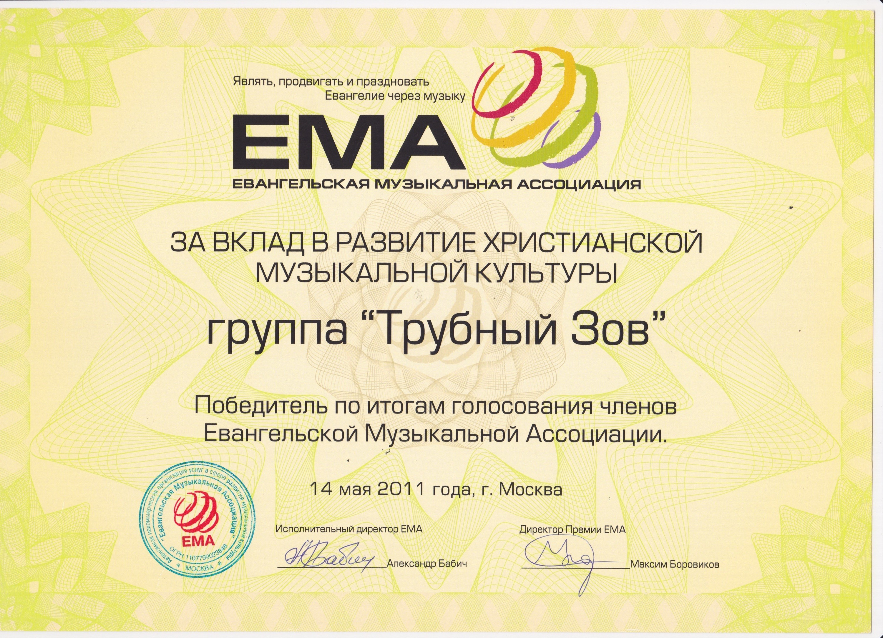 ЕМА грамота Трубному Зову